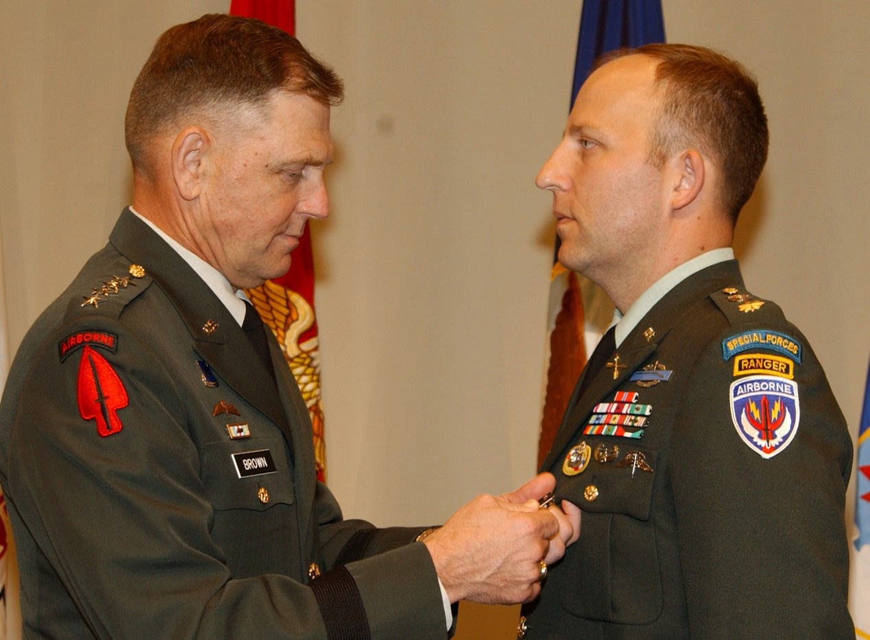 Maj. Mark Mitchell is pinned Nov. 14 2003 with the Distinguished Service Cross, for combat actions during the Battle of Qala-i-Jangi in Operation Enduring Freedom, by Gen. Bryan Brown, commander, U.S. Special Operations Command.